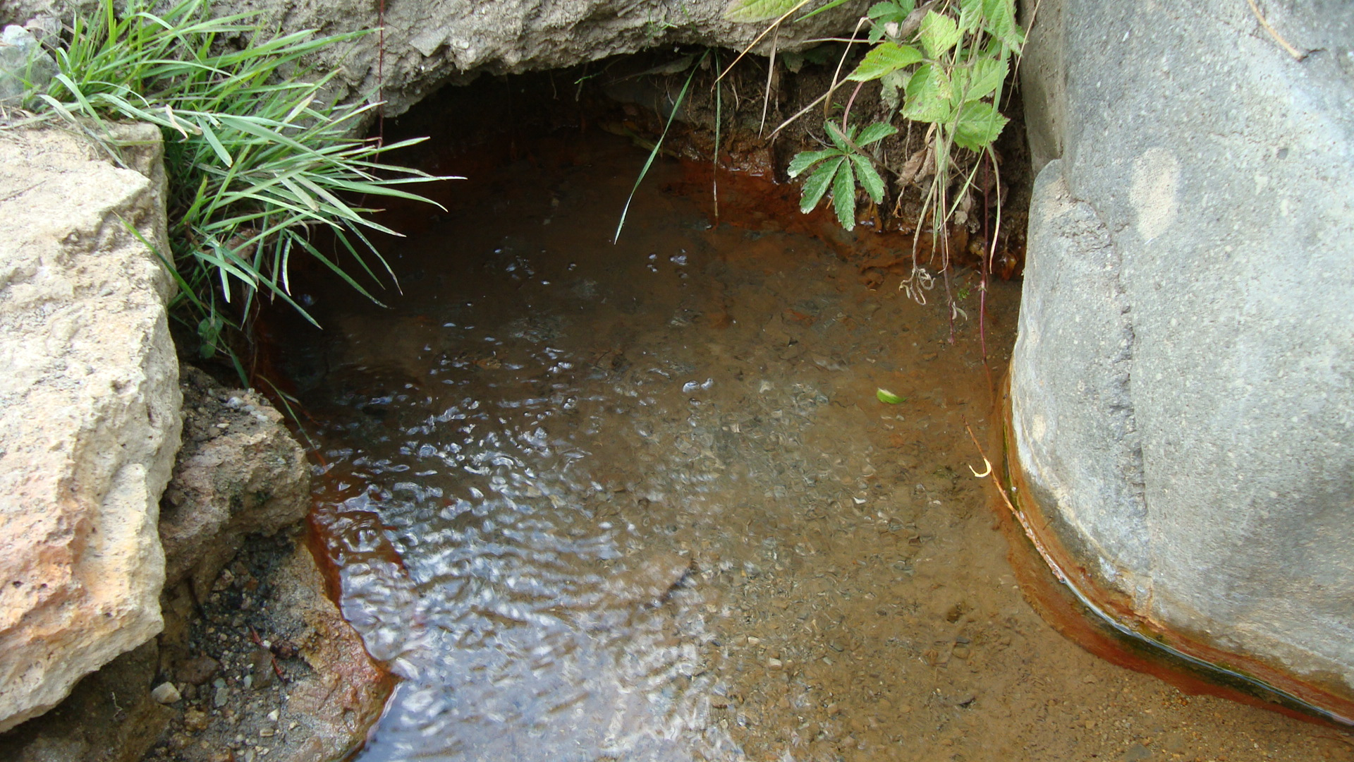 Zuar village, Shahumian district, Republic of Mountainous Karabakh (Artsakh).